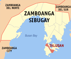 Map of the Zamboanga Sibugay showing the location of Talusan